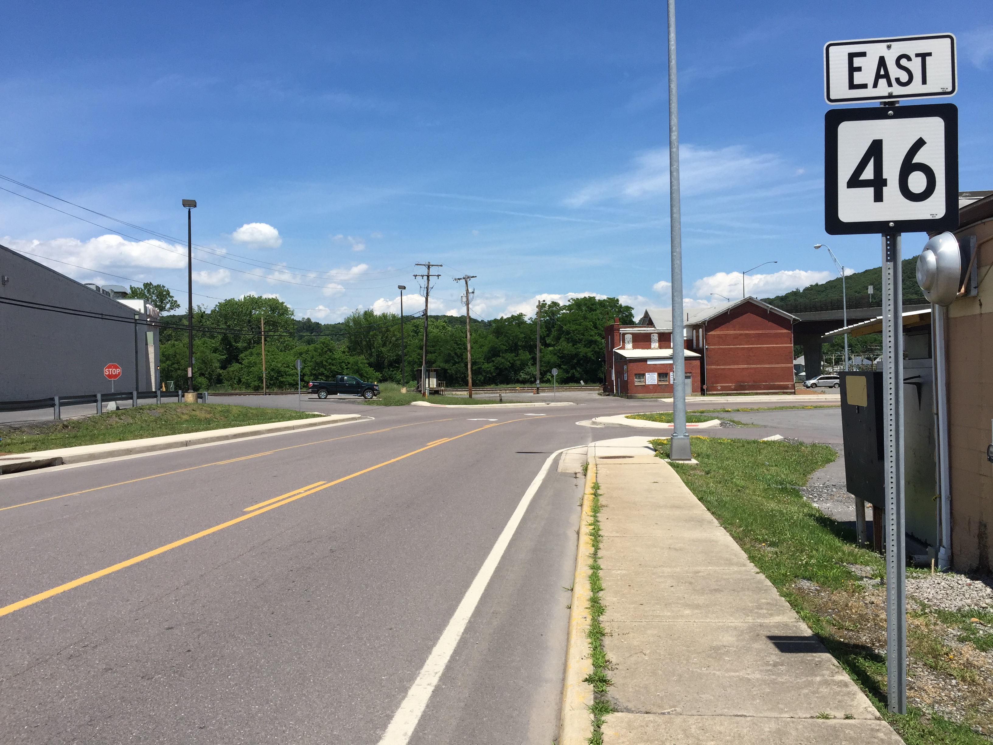 View east along West Virginia State Route 46 (Armstrong Street) between Piedmont Street and Davis Street in Keyser, Mineral County, West Virginia